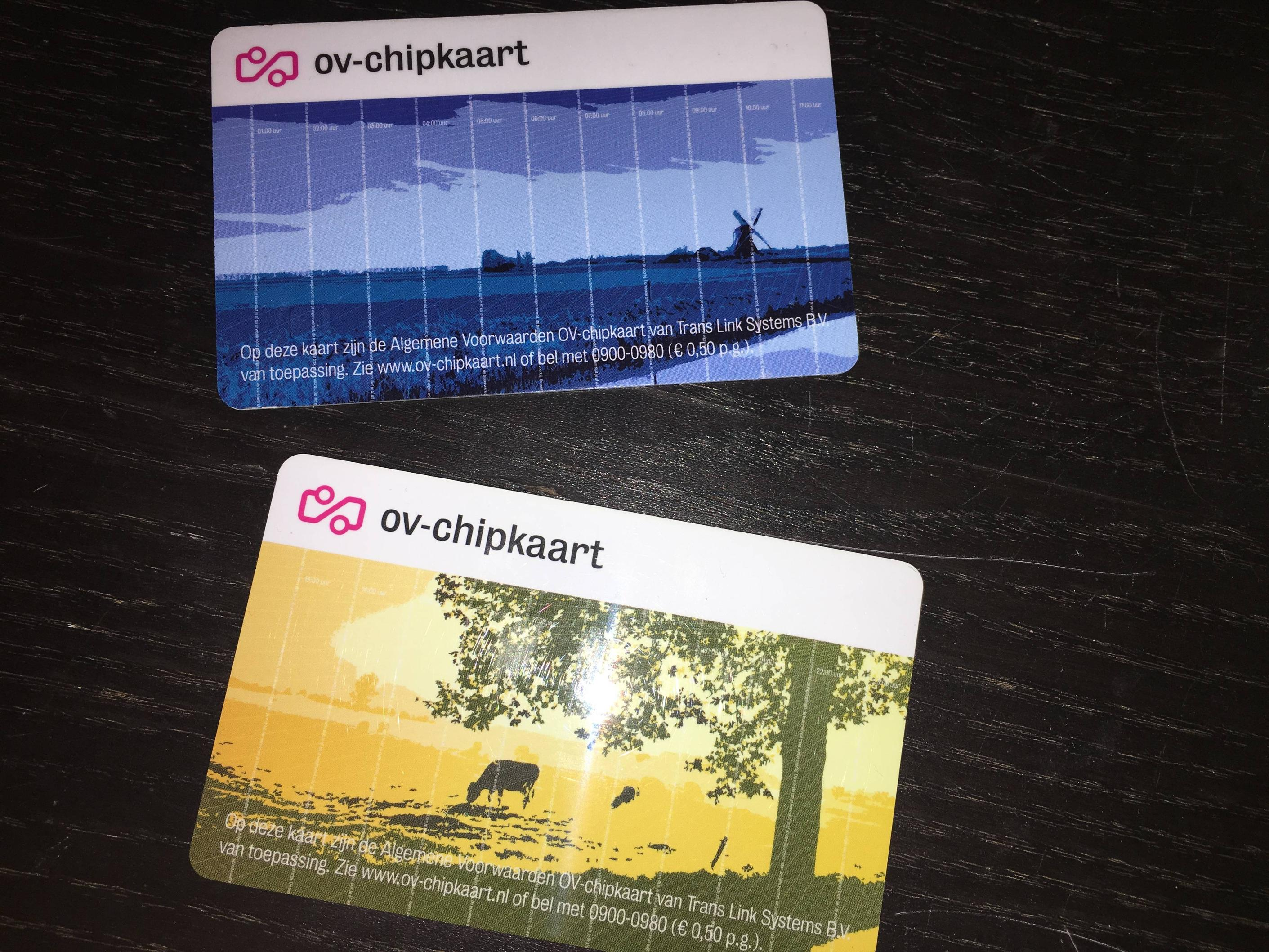 OV-chipkaart